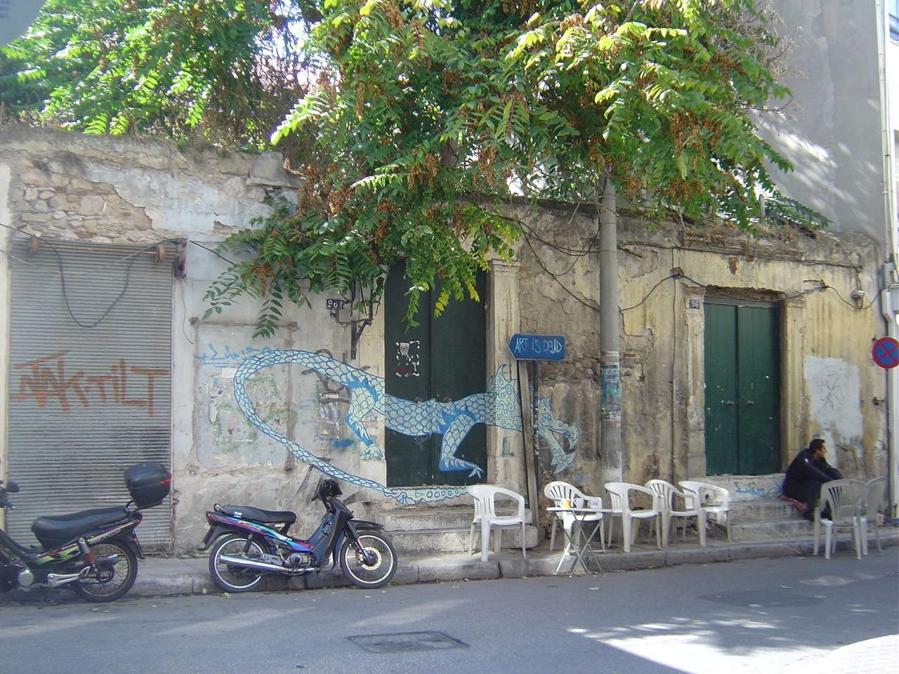 Benizelos mansion in Plaka, Athens, Greece